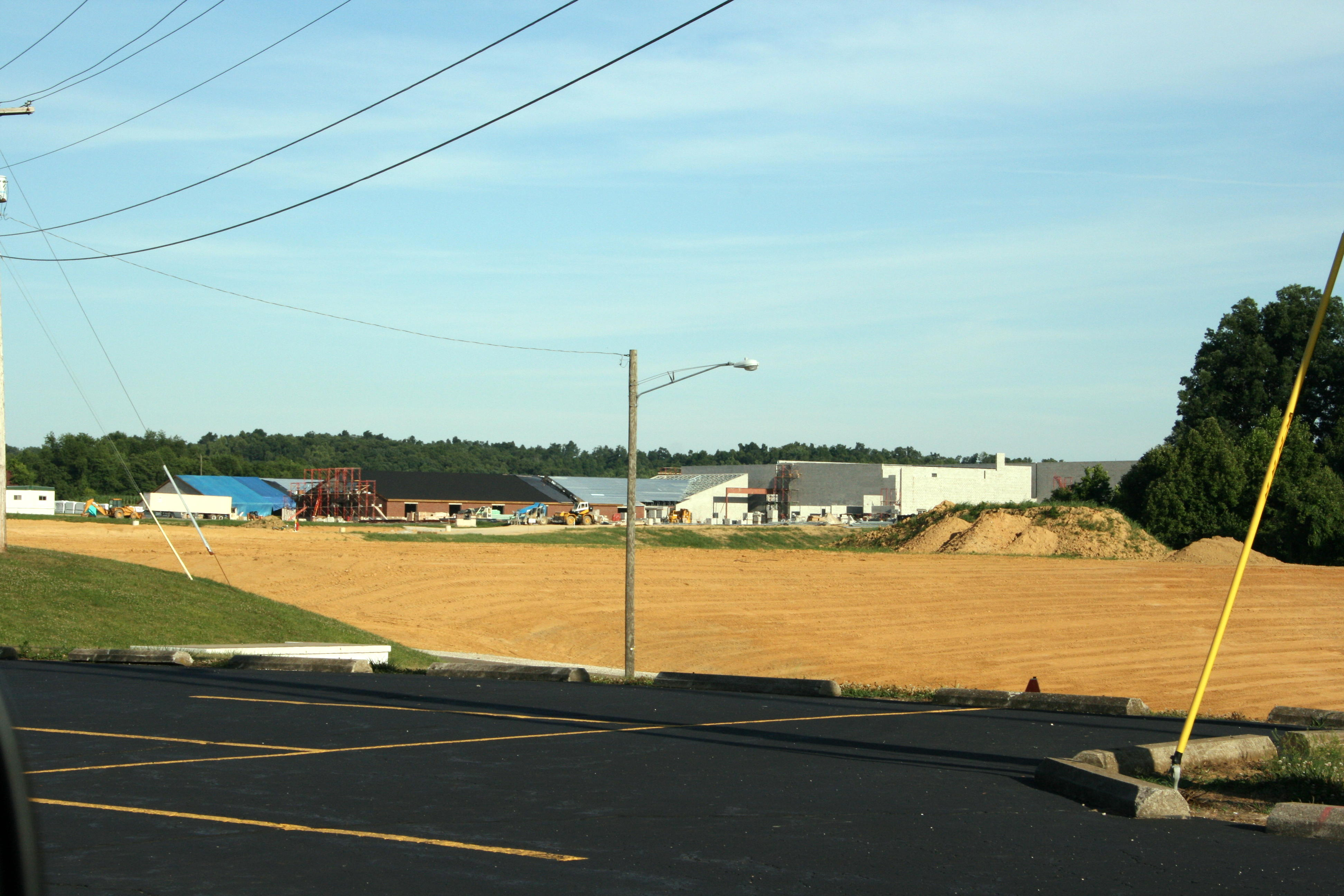 Construction begins for a new school complex attached to Wheelersburg High School on Gleim Road in Wheelersburg, Ohio, United States.